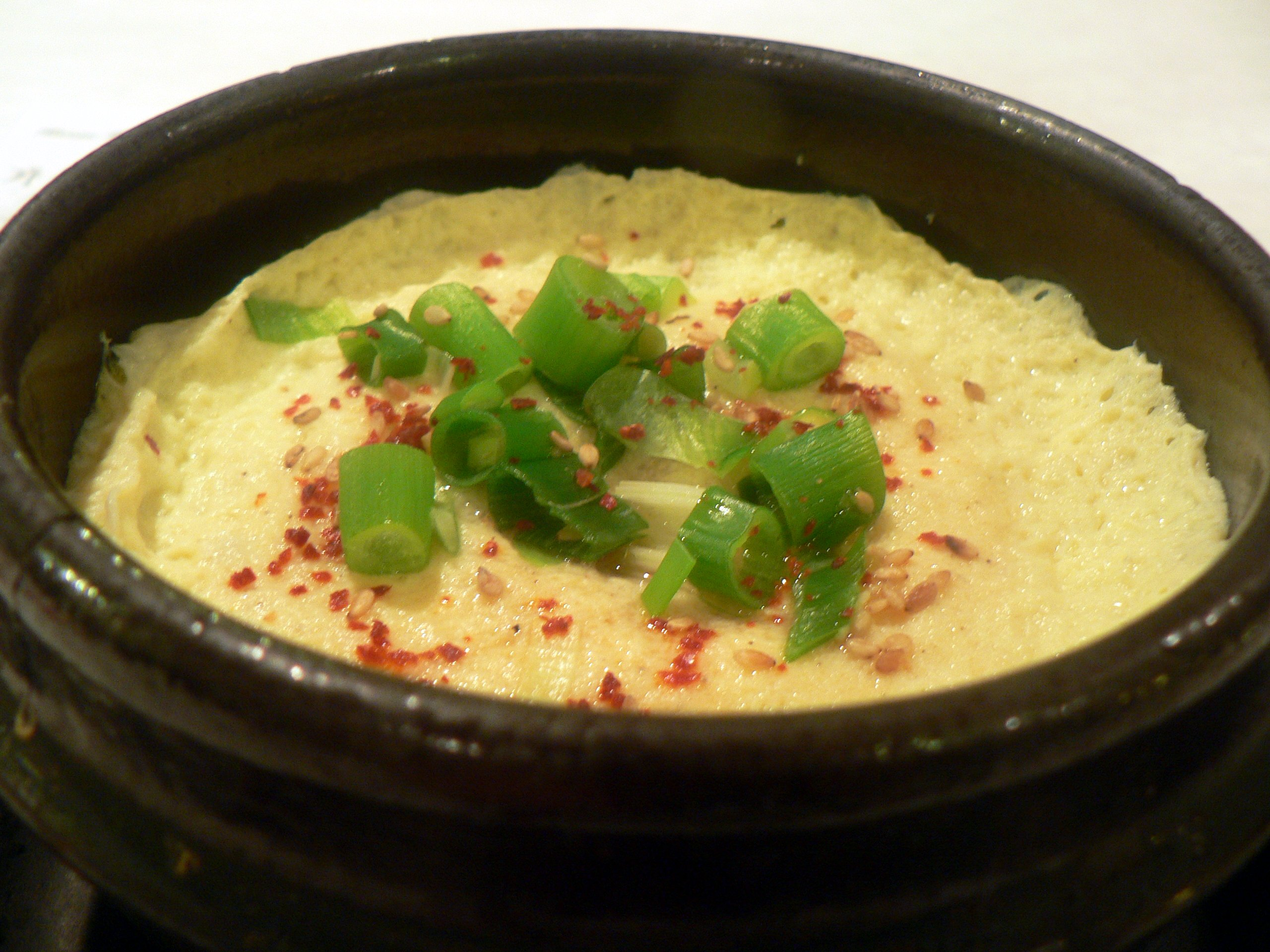 계란찜, Gyeran jjim, steamed egg broth to make into pudding status.